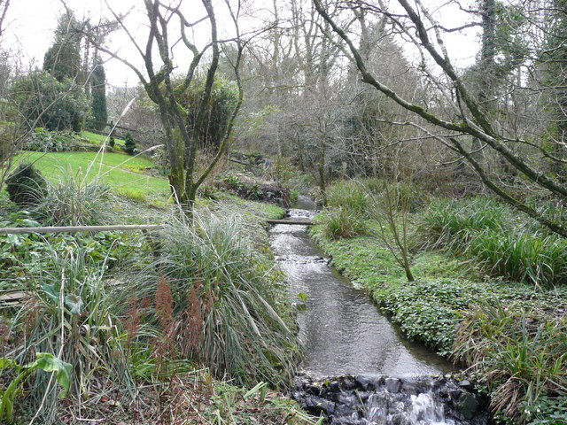 Stream and garden A naturalistic scene in the hamlet of Gooseham. I'm very envious of the owner!